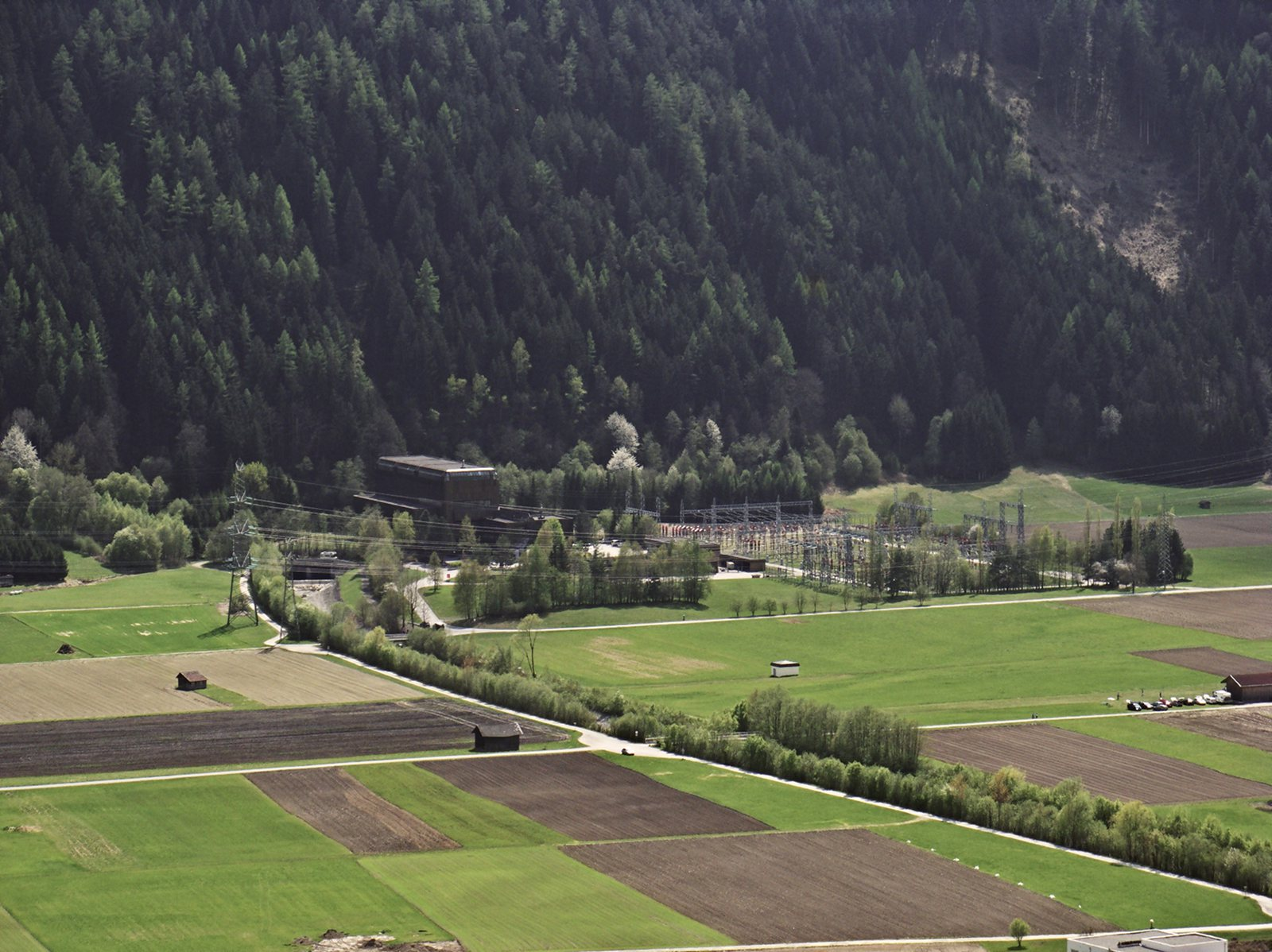 Sellrain-Silz power station complex, Silz power station and substation